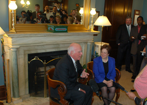 Senator Patrick Leahy (D-VT) meeting with Supreme Court nominee Elena Kagan.